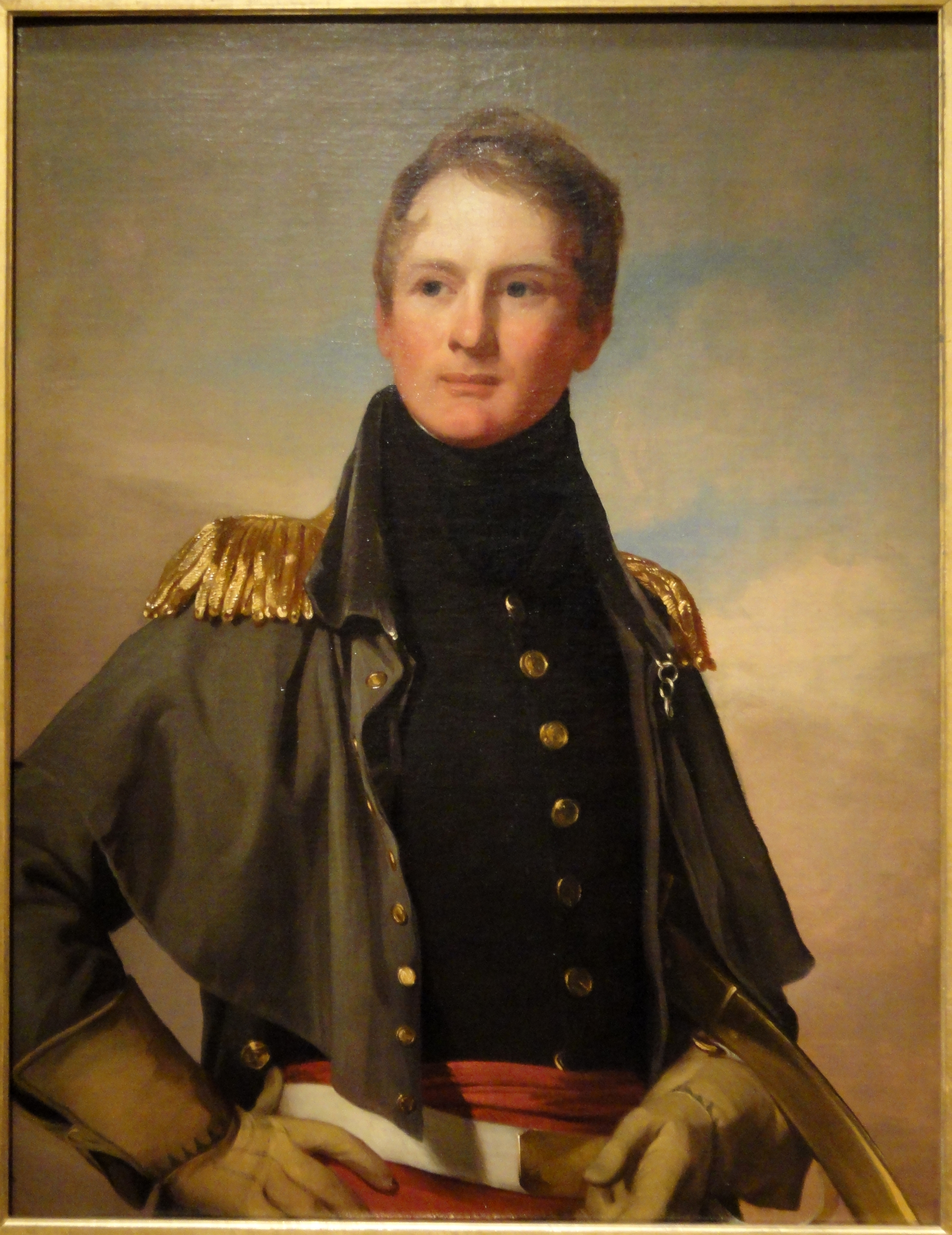 Major Thomas Biddle by Thomas Wilcocks Sully and Thomas Sully, 1832, oil on canvas, National Gallery of Art, Washington, DC, USA. This painting is in the public domain because the artist died more than 70 years ago.